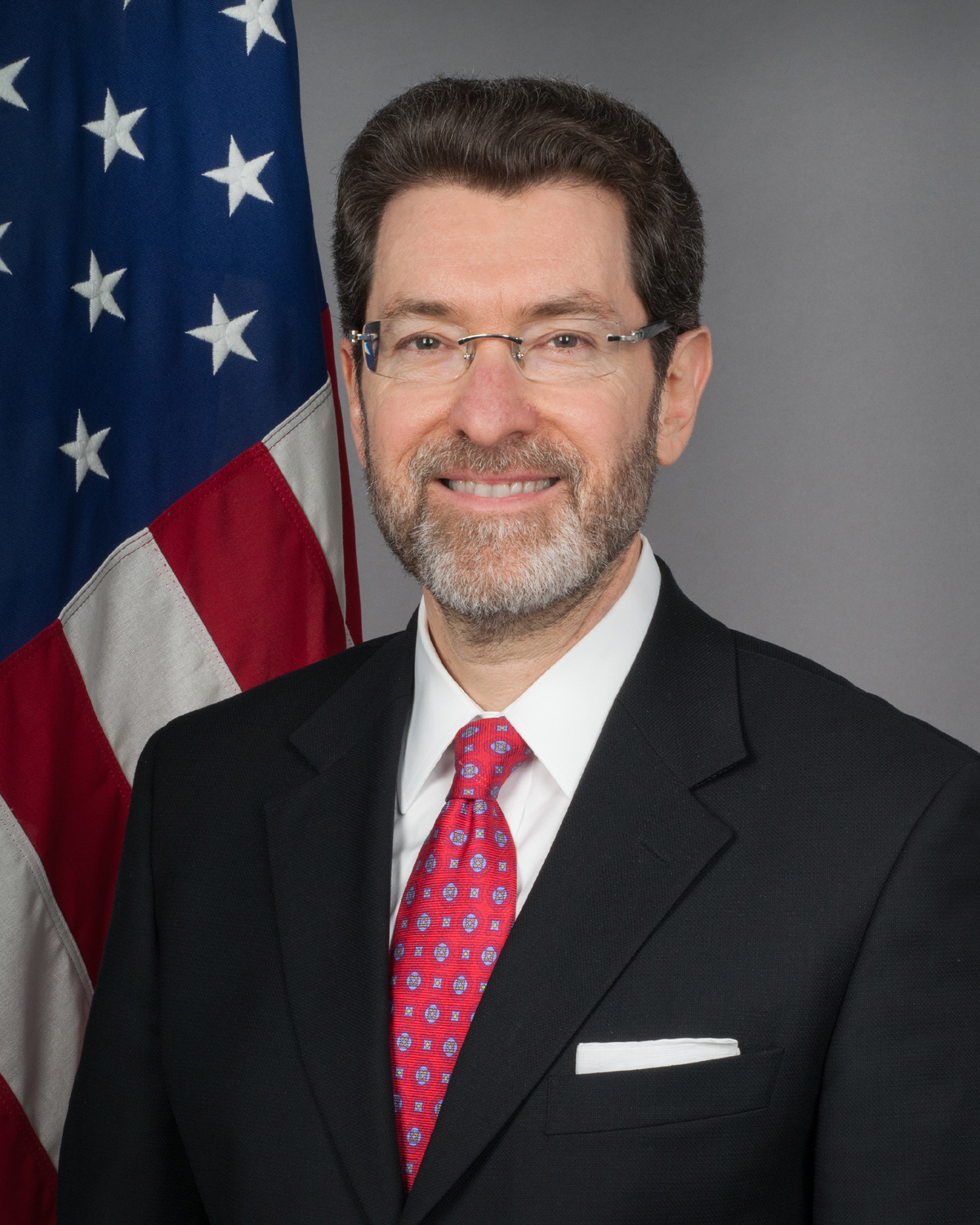 US Ambassador to The Czech Republic